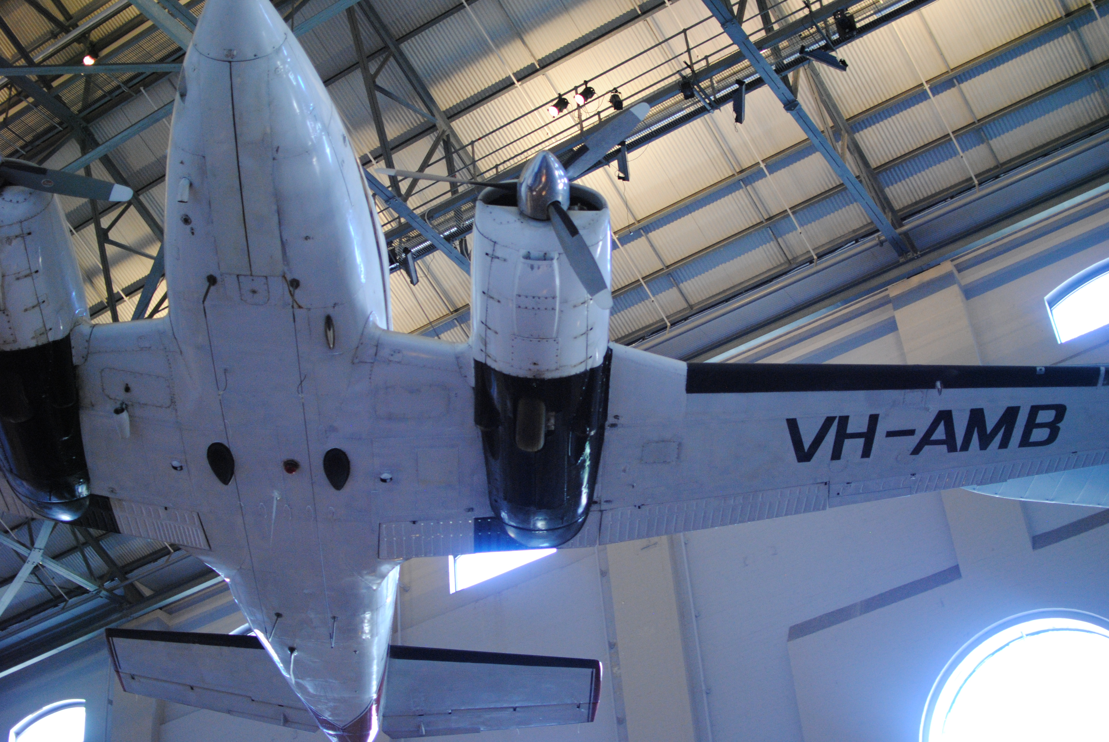 in the Powerhouse Museum, Sydney, NSW, Australia. [Camera's clock set to UTC]